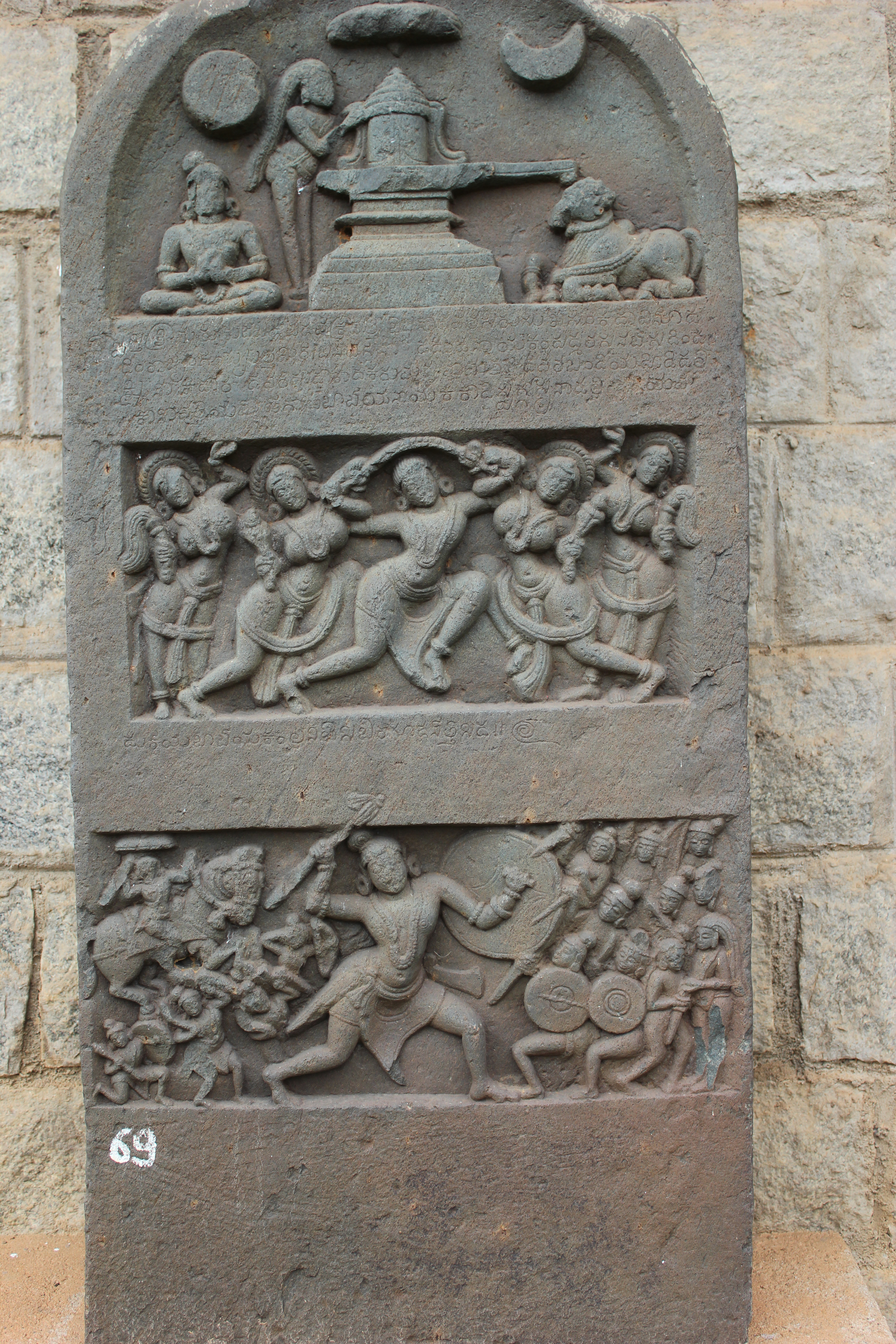 This photograph of a Herostone (virgal) with old Kannada inscription (1160 A.D.) from the rule of Kalachuri King Bijjala was taken by me at the Kedareshvara temple (also spelt Kedaresvara or Kedareshwara) in Balligavi (also called variously as Belgami, Belligave, Balligamve and Ballipura in ancient inscriptions) in the Shimoga district of Karnataka state, India. Source: Mysore inscriptions, pg.169, Benjamin Lewis Rice, Director of Public Instruction, Mysore and Coorg, Printed at Mysore Government Press, Bangalore, 1879